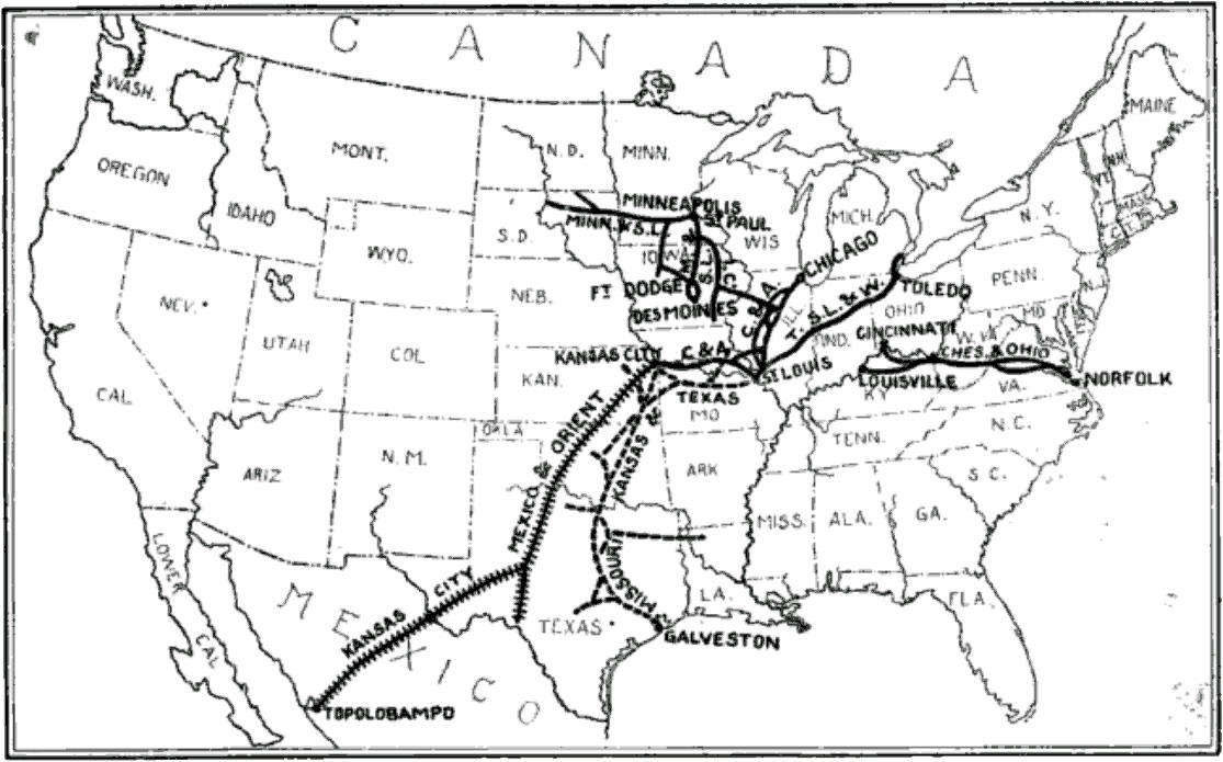 "Map of the Hawley Railroad Lines"